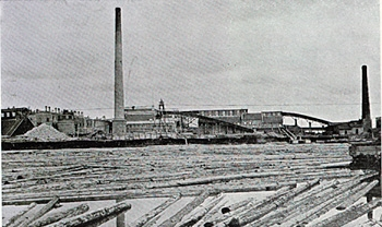 Sawmill in Kotka,Finland